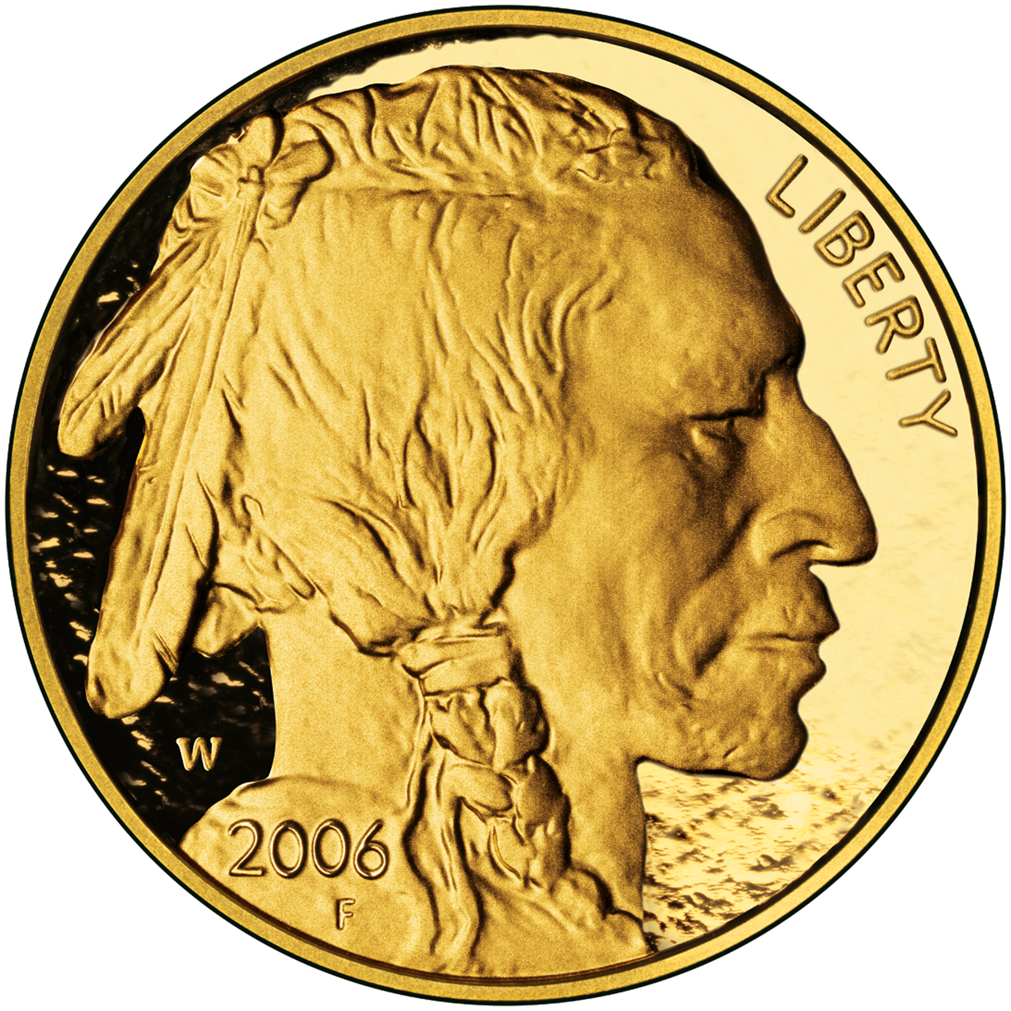 This is the proof version of the American Buffalo Gold Bullion coin. Like all US Mint images, this image is in the public domain as a work of the US government.